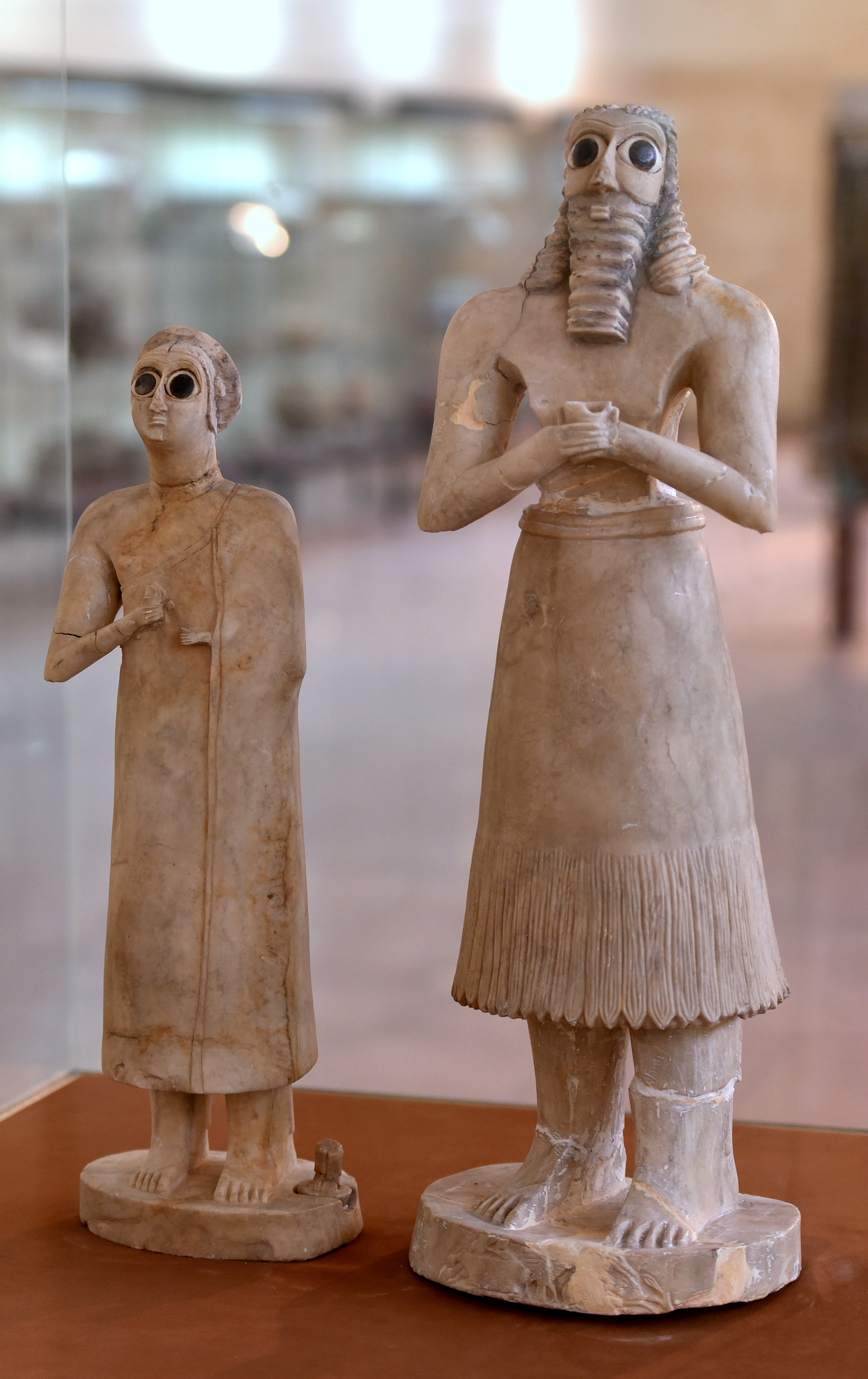 Statue of a Sumerian male worshiper from the Square Temple of Abu at Tell Asmar (ancient Eshnunna), Iraq. Early Dynastic period, c. 2800-2400 BCE. Excavated by the Oriental Institute of the University of Chicago in 1930s. Part of the so-called "Tell Asmar Hoard". The Iraq Museum in Baghdad.